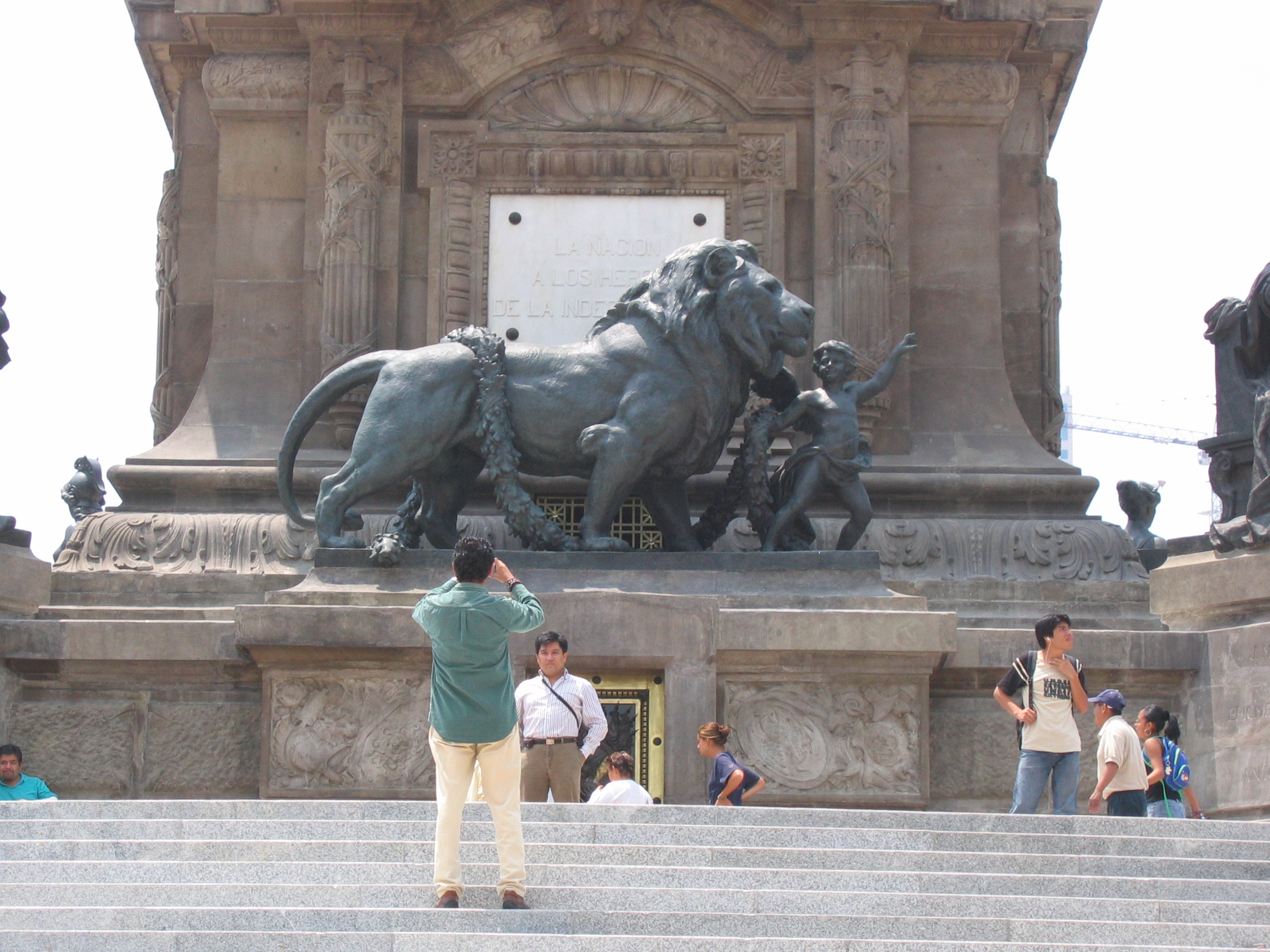 Child leading a lion; the leading sculpture at the base of the Ángel de la Independencia column, in México City